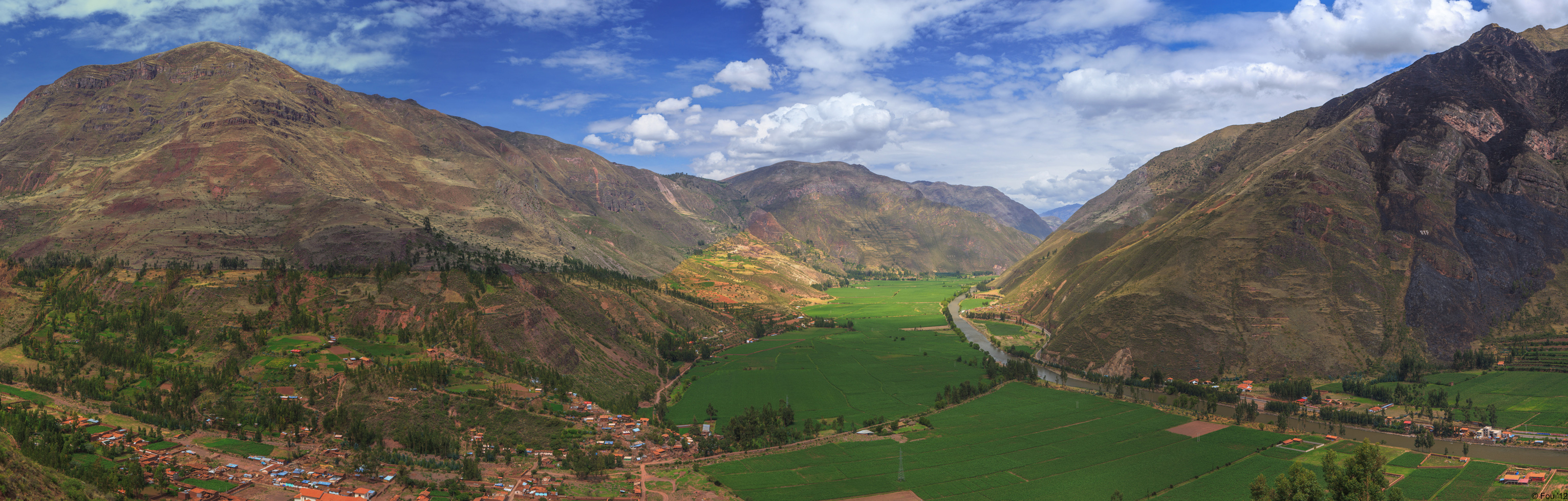 the Sacred Valley, Peru